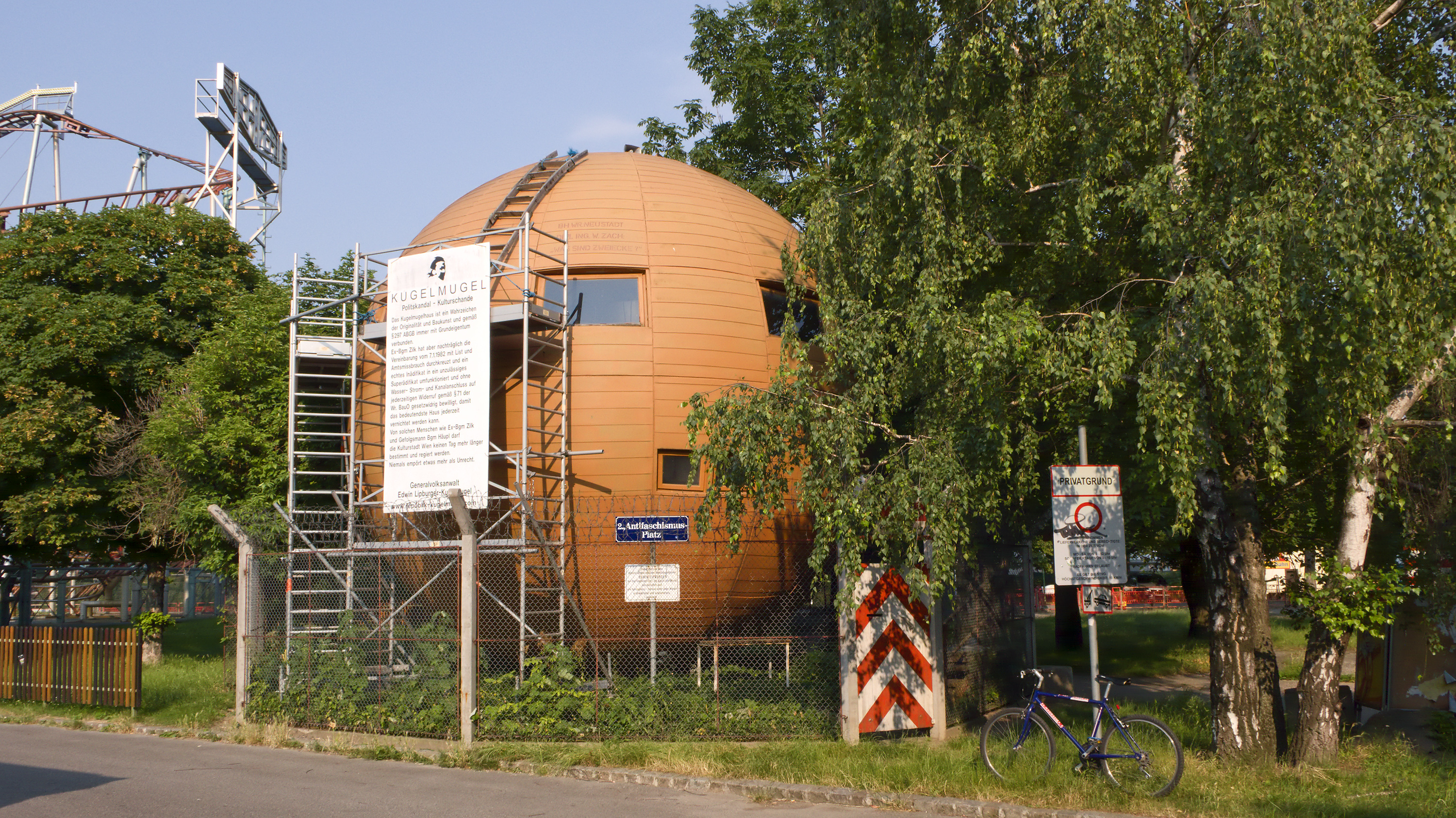 Building Kugelmugel in Wiener Prater